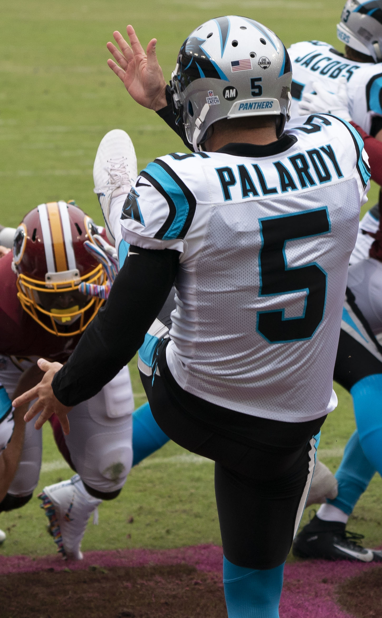 Panthers at Redskins 10/14/18